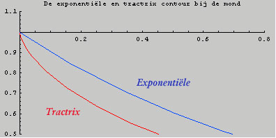 Comparison of the exponential and tractrix contour